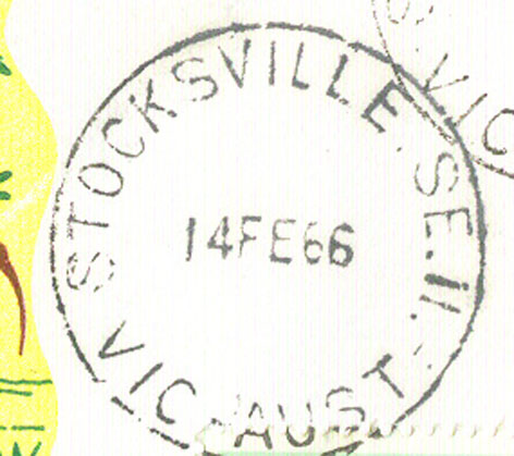 1966 postmark of Stocksville, Victoria, Australia